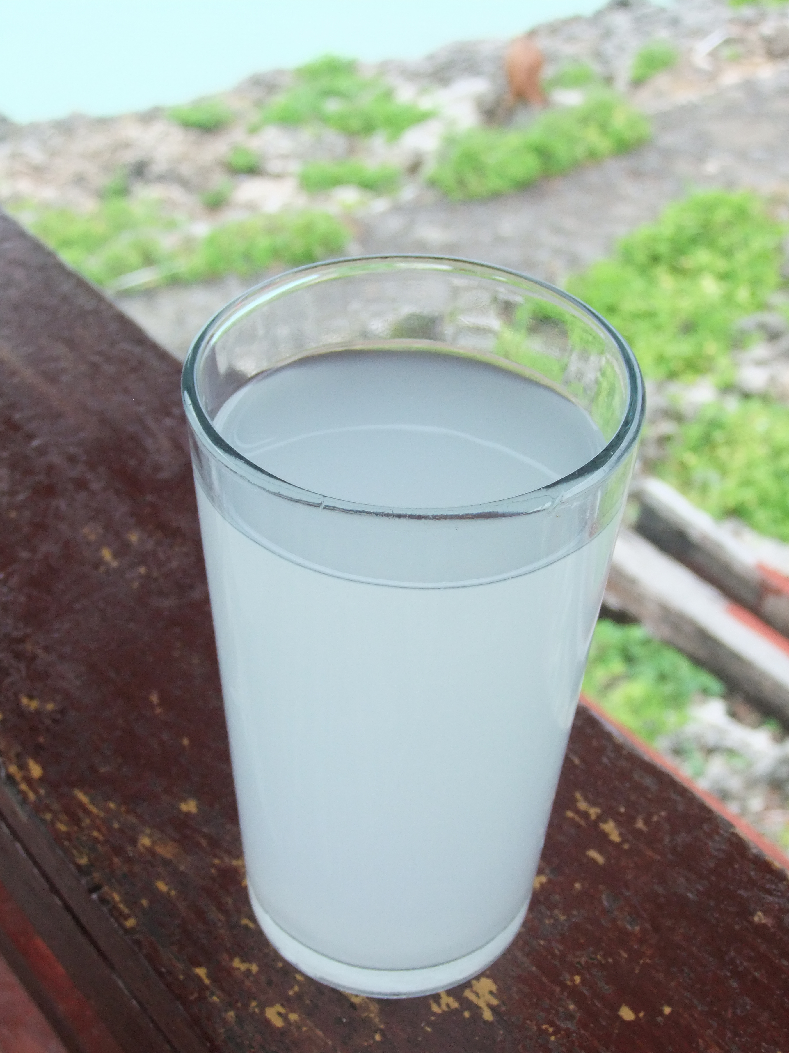 Sap from B. flabellifer